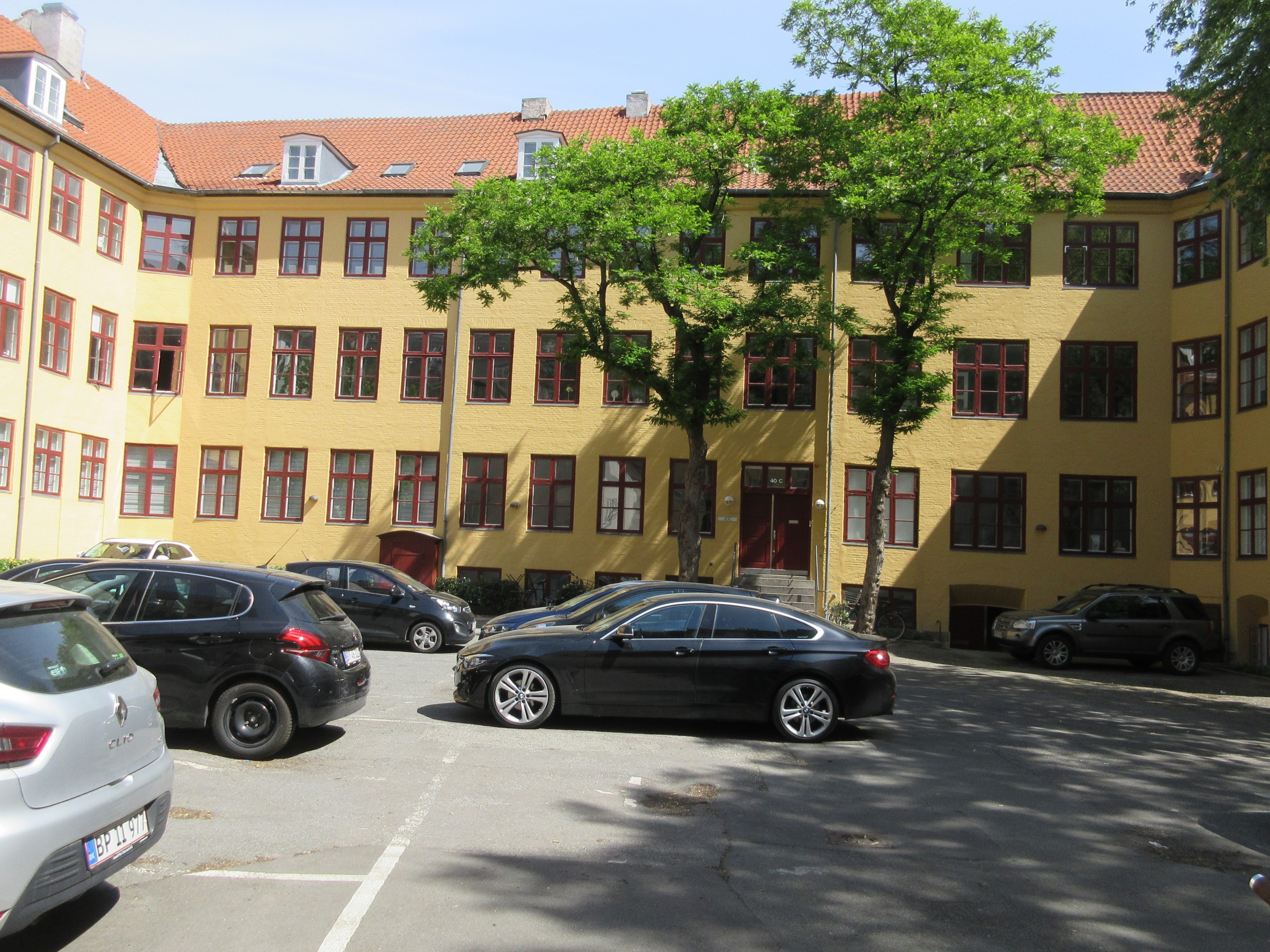 Pilestræde 40C in Copenhagen, Denmark